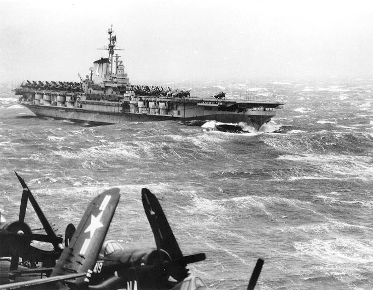 USS Midway (CVB-41) steams through a gale east of Sicily, 4 February 1949. Photographed from USS Philippine Sea (CV-47), some of whose F4U-4 "Corsair" fighters are in the foreground.